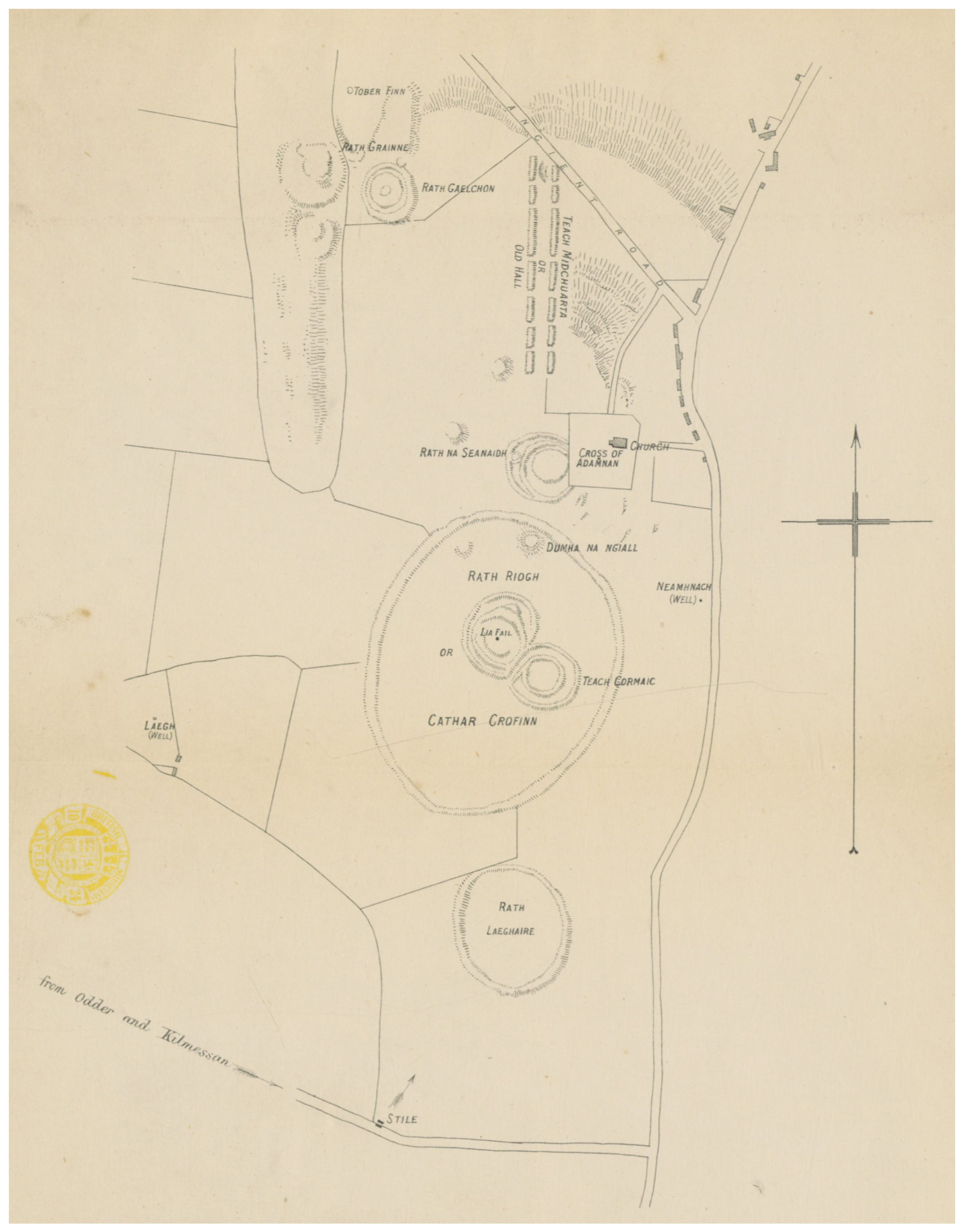 Page 21 of A Short Description of the Hill of Tara.